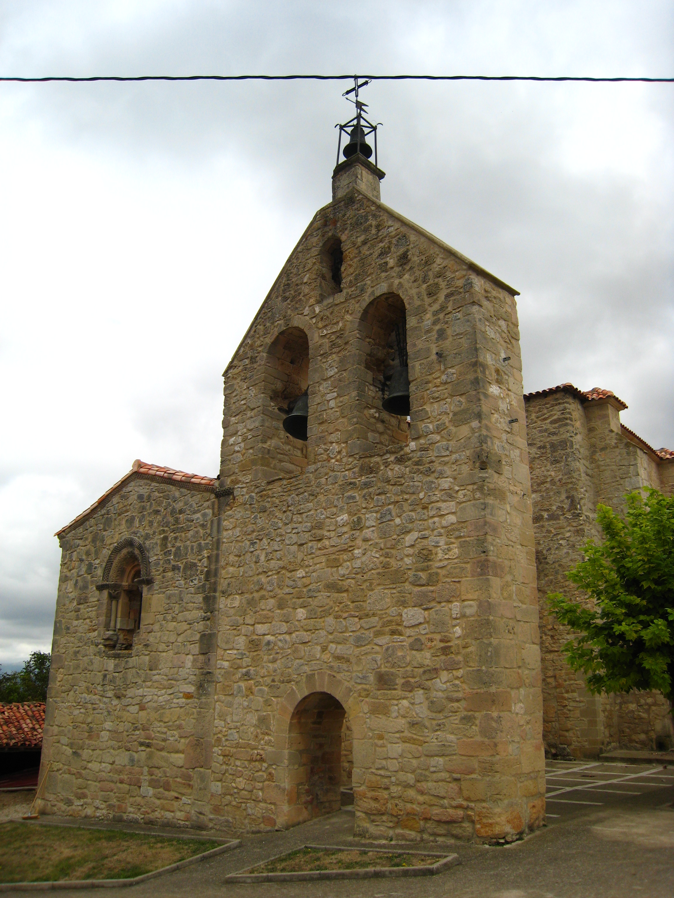 Romanesque church at Bozoo, Burgos (Spain)